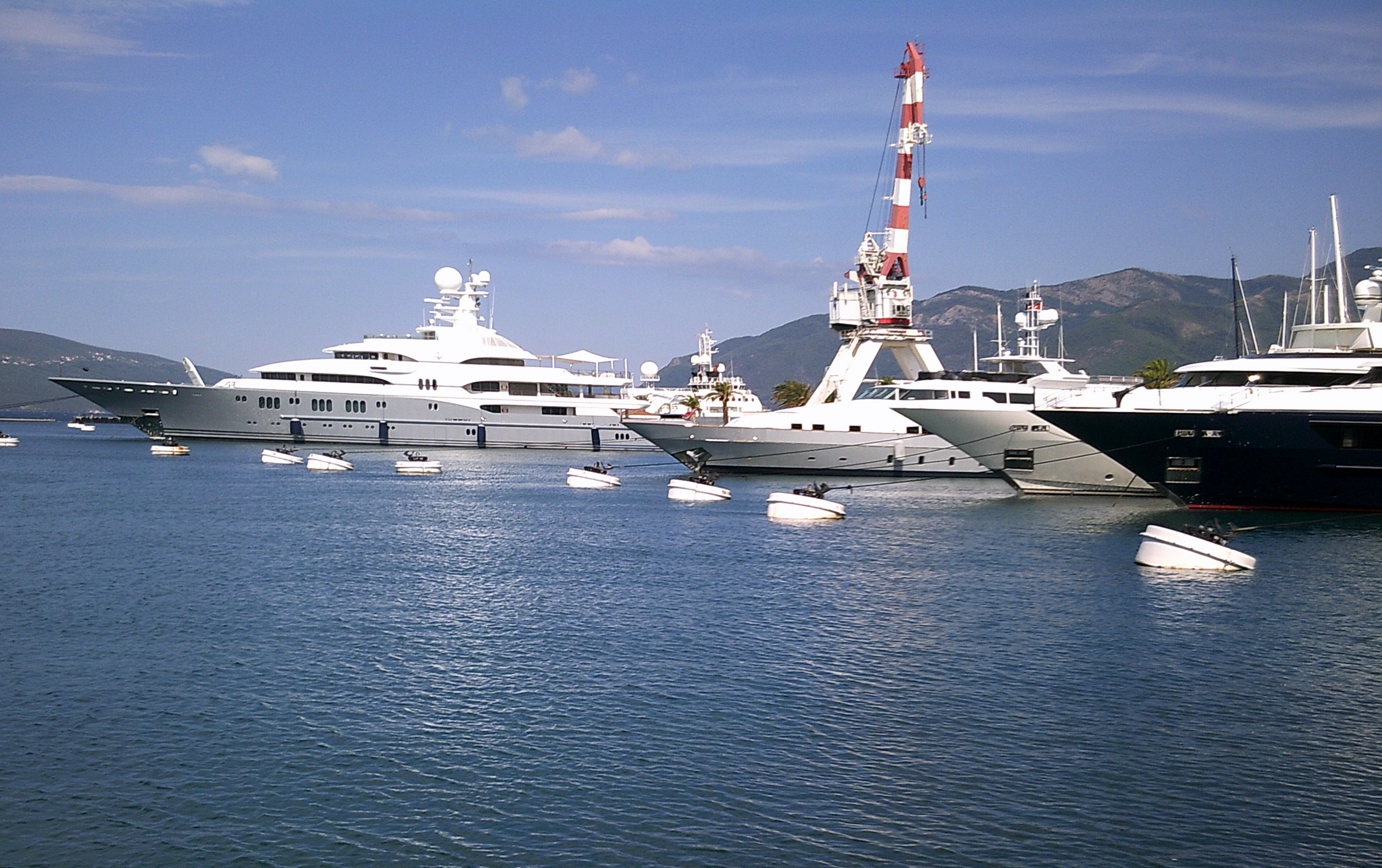 Tivat, Montenegro